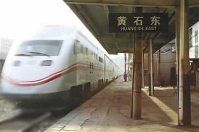 "ShenZhou" diesel motor train-set into Huangshidong Station